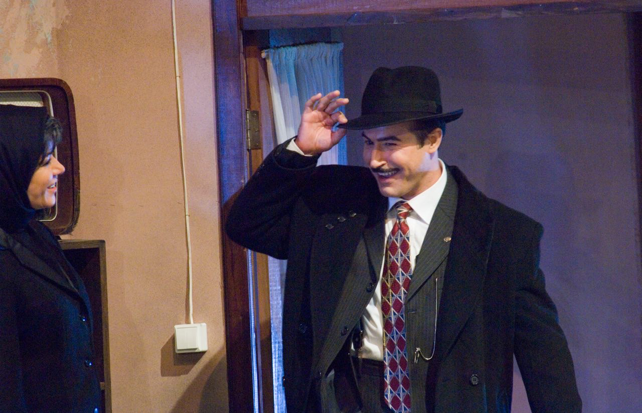 Danial Hakimi in the Melody of The Rainy City